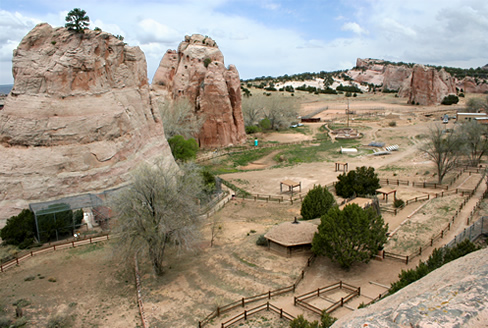 Topside view of the grounds of the Navajo Nation Zoological and Botanical Park Diné bizaad: Diné Bikéyah binaaldlooshii dóó chʼil daʼnílʼį́įgo bił nahazʼááh (Tségháhoodzáníidi éélkid)